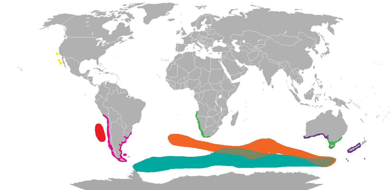 Derived from constituent taxa. Arctocephalus gazella - cyan Arctocephalus townsendi - yellow Arctocephalus philippii - red Arctocephalus galapagoensis - blue Arctocephalus pusillus - green Arctocephalus forsteri - violet Arctocephalus tropicalis - red orange Arctocephalus australis - magenta